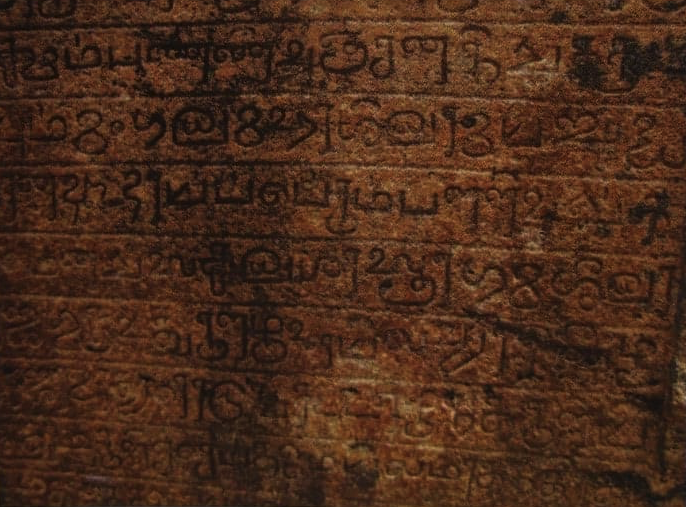 Polonnaruwa inscription of Vijayabahu I - 12th century AD